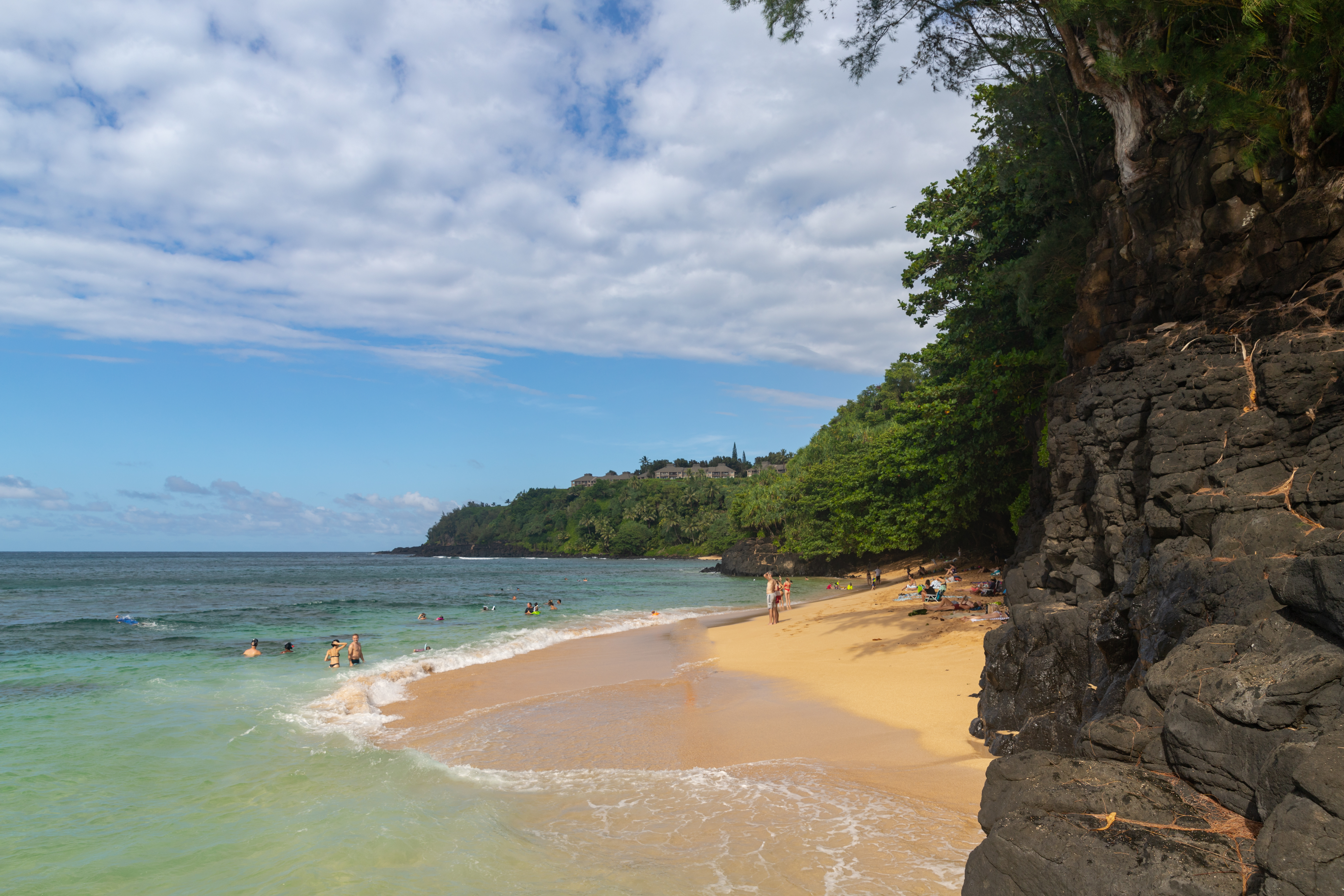 Hideaways Beach Strand Princeville Kauai Hawaii